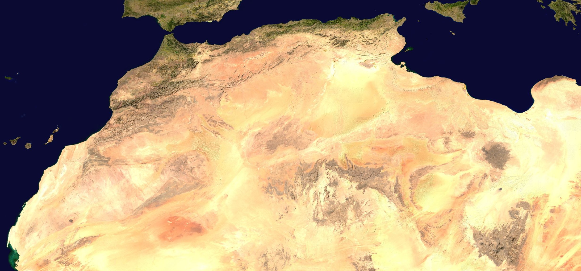 A composed satellite photograph of Africa.